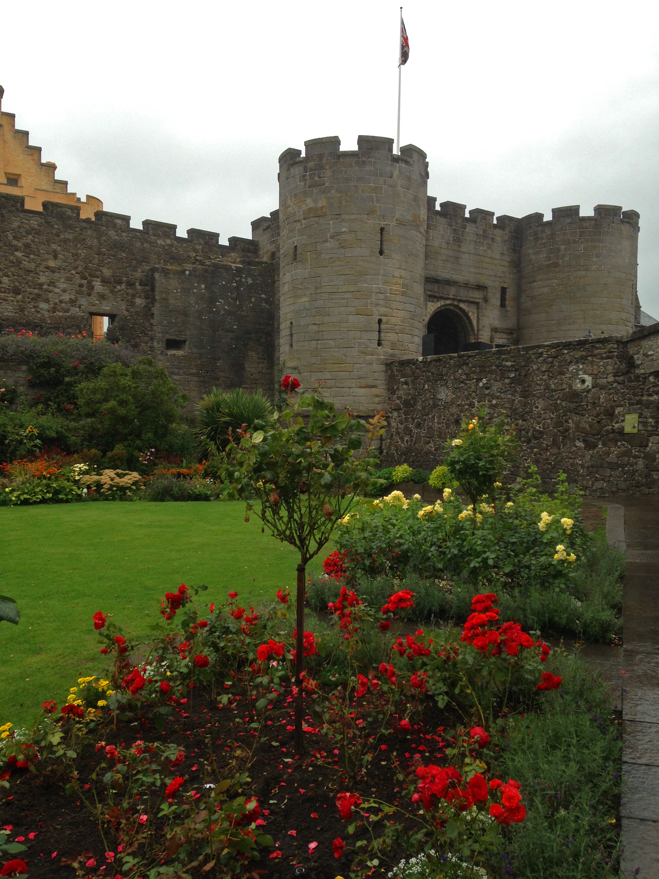 Stirling Castle gate